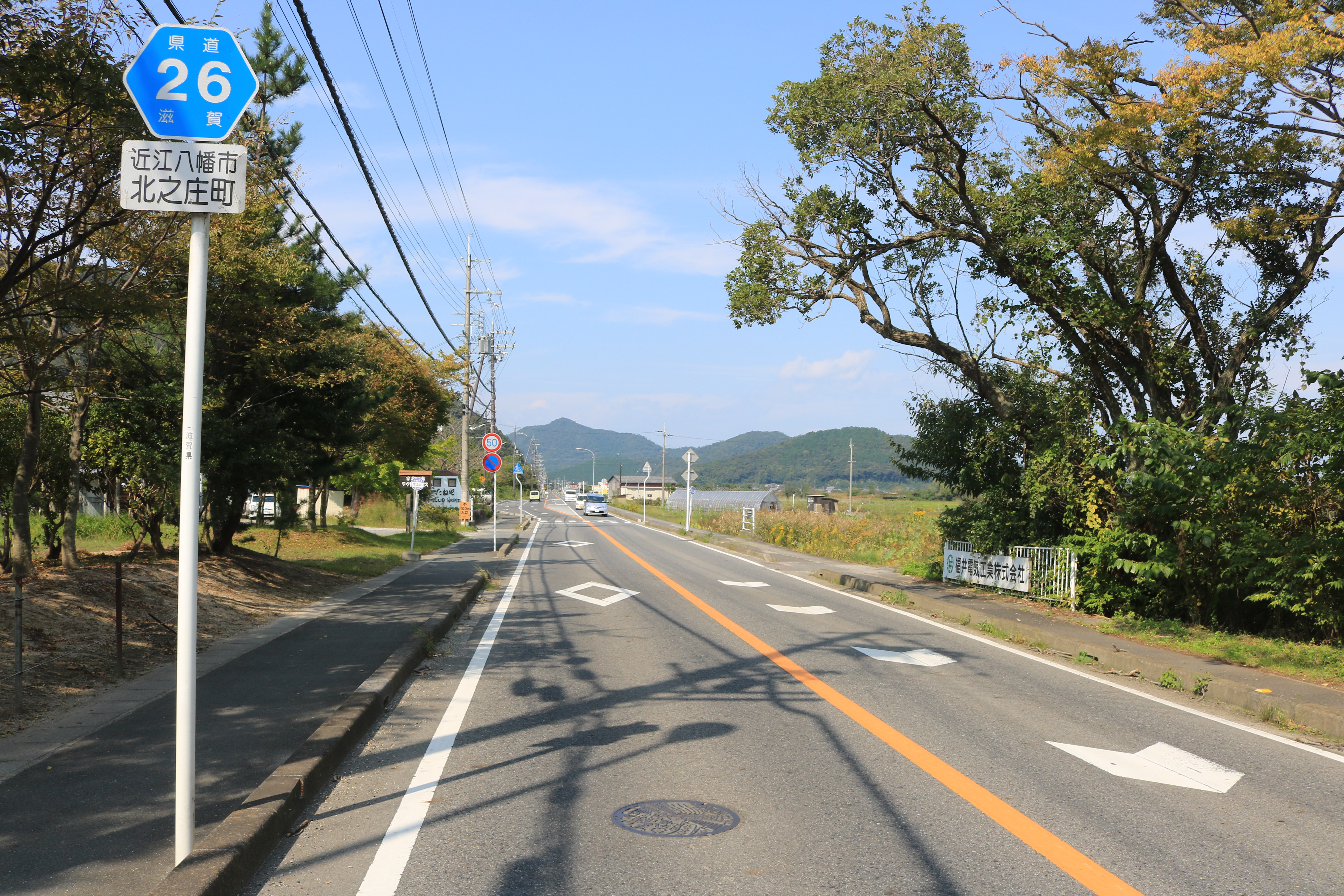 Shiga Prefectural Road Route 26 in Kitanoshochō, Omihachiman, Shiga prefecture, Japan.